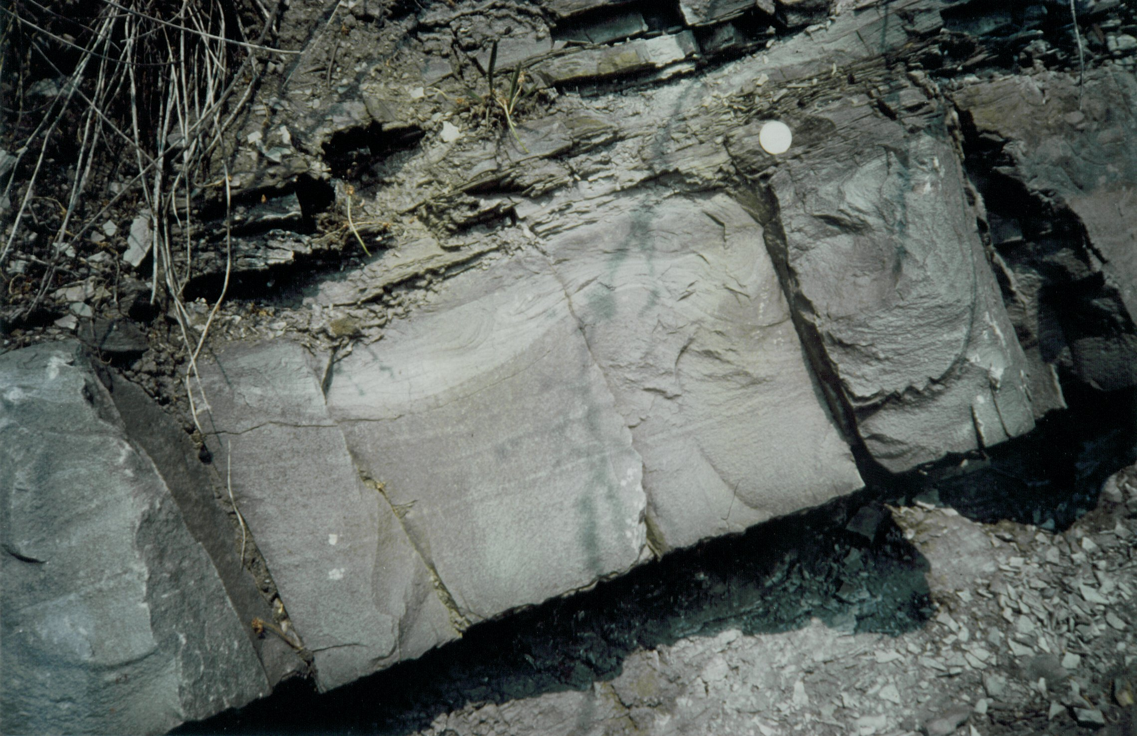 Upper Devonian Turbidite from Rheinisches Schiefergebirge with gradded and convolute bedding. Complete Bouma sequence (Bouma-Sequenz (de.)). Nehden formation, former sandstone quarry, Becke-Oese.